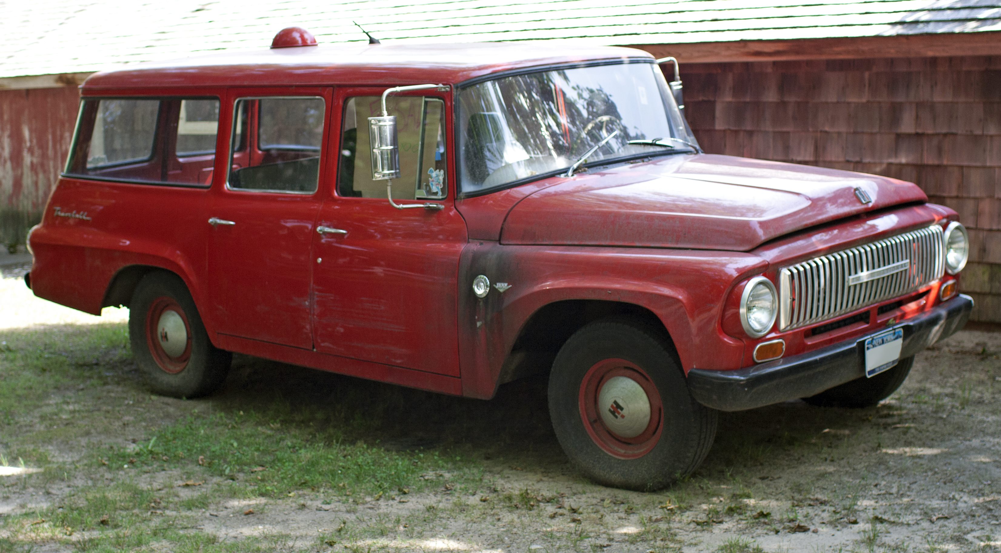 1965 International Harvester D1100 Travelall